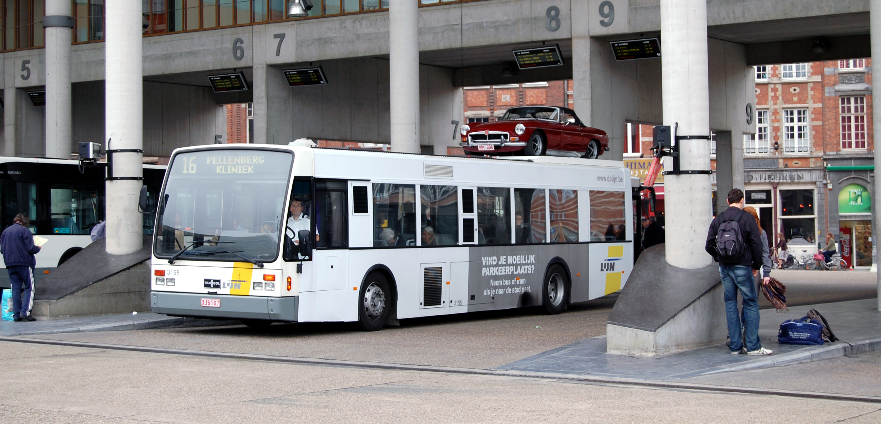 Bus company De Lijn in Belgium promotes public transport with a car on top of a bus. Van Hool A300 bus. Year built 1995.